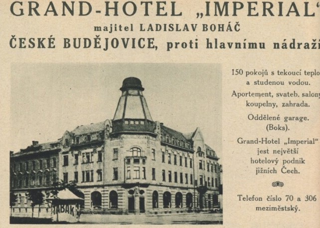 Grand hotel Imperial, České Budějovice (CZ), advertisement 1927